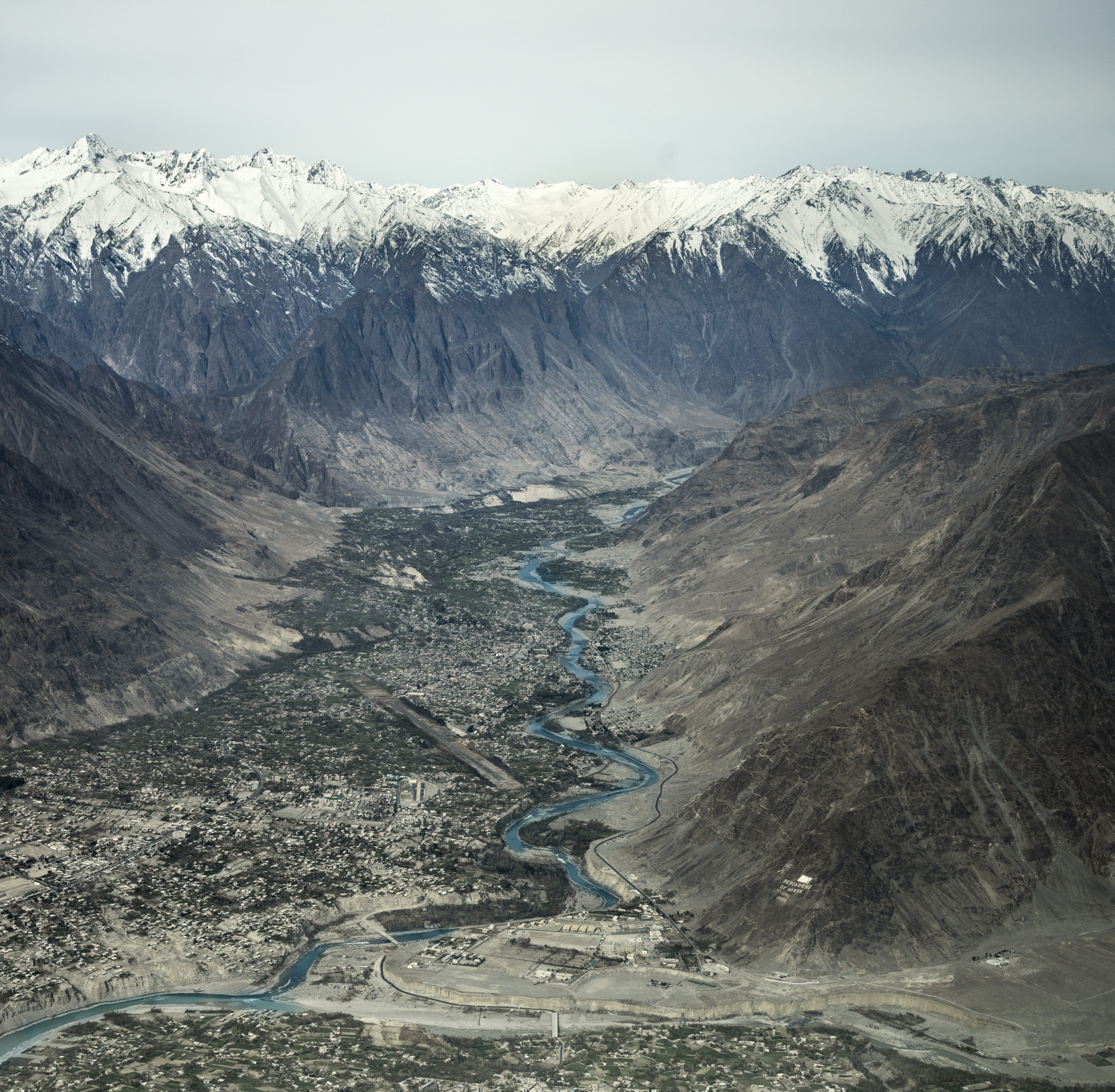 Gilgit Aerial View